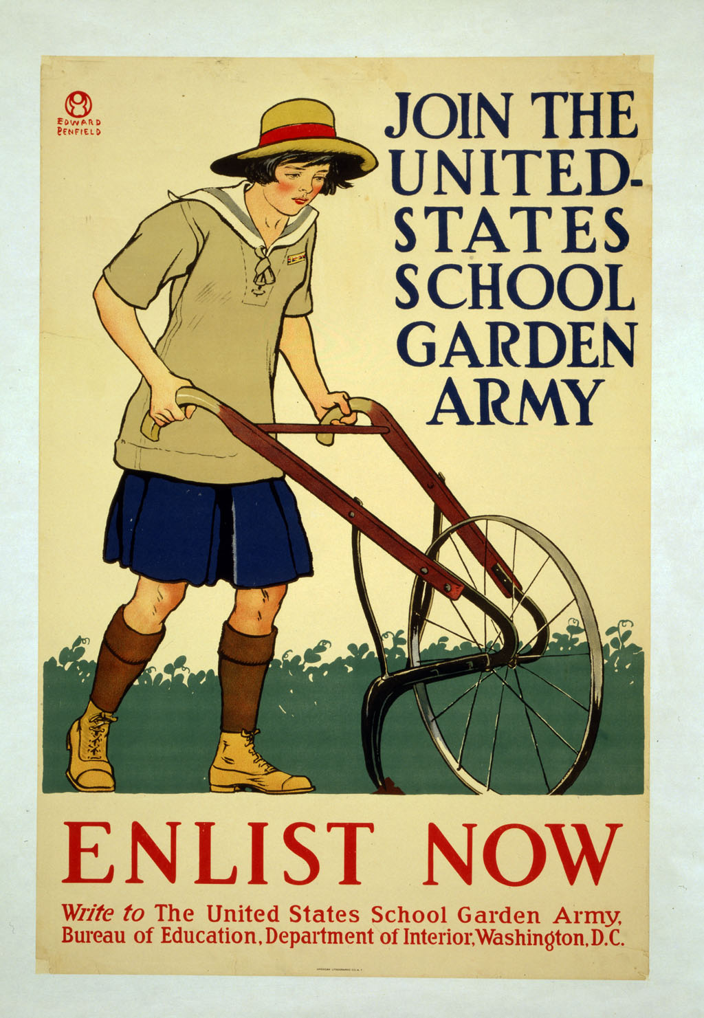 Title: Join the United States school garden army - Enlist now Abstract: Poster showing a girl plowing. Physical description: 1 print (poster) : lithograph, color ; 86 x 60 cm. Notes: Text continues: Write to The United States School Garden Army, Bureau of Education, Department of Interior, Washington, D.C.